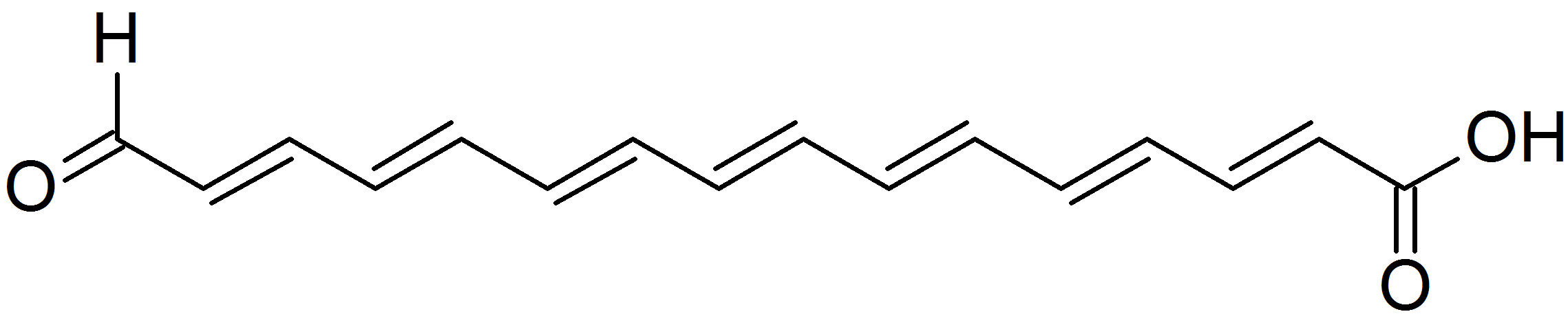 Calostomal Gruber G, Steglich W. (2007). "Calostomal, a polyene pigment from the gasteromycete Calostoma cinnabarinum (Boletales)" (pdf). Zeitschrift für Naturforschung B 62 (1): 129–131.